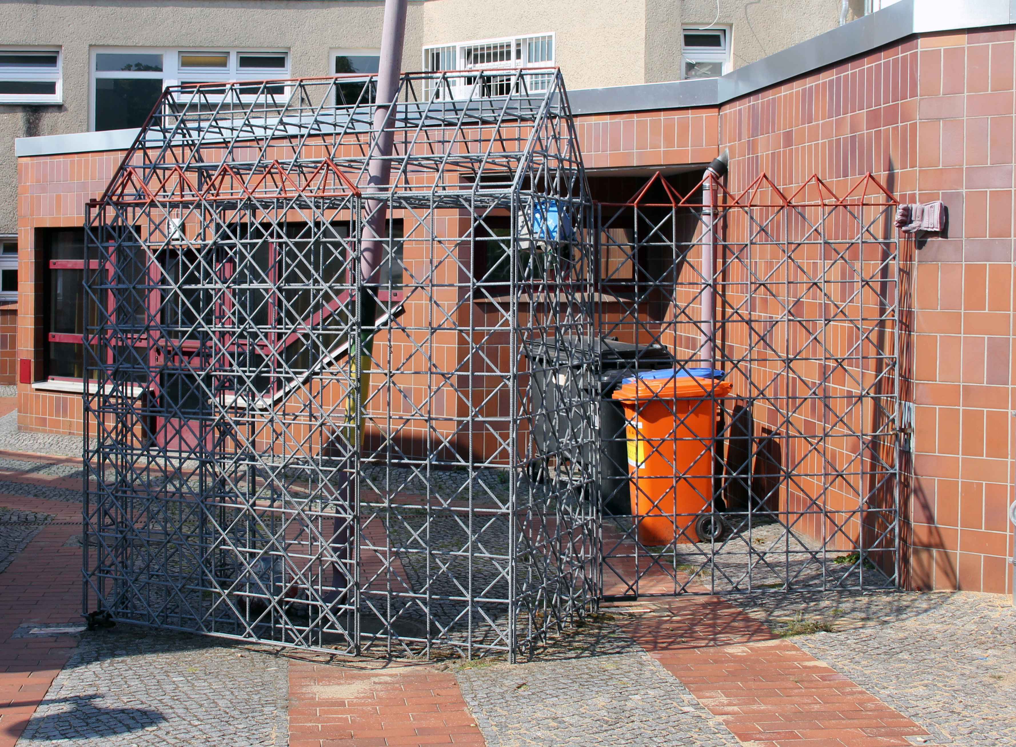 Sculpture, "Das Tor" by Georg Seibert, 1985, Osdorfer Straße 53, Berlin-Lichterfelde, Germany